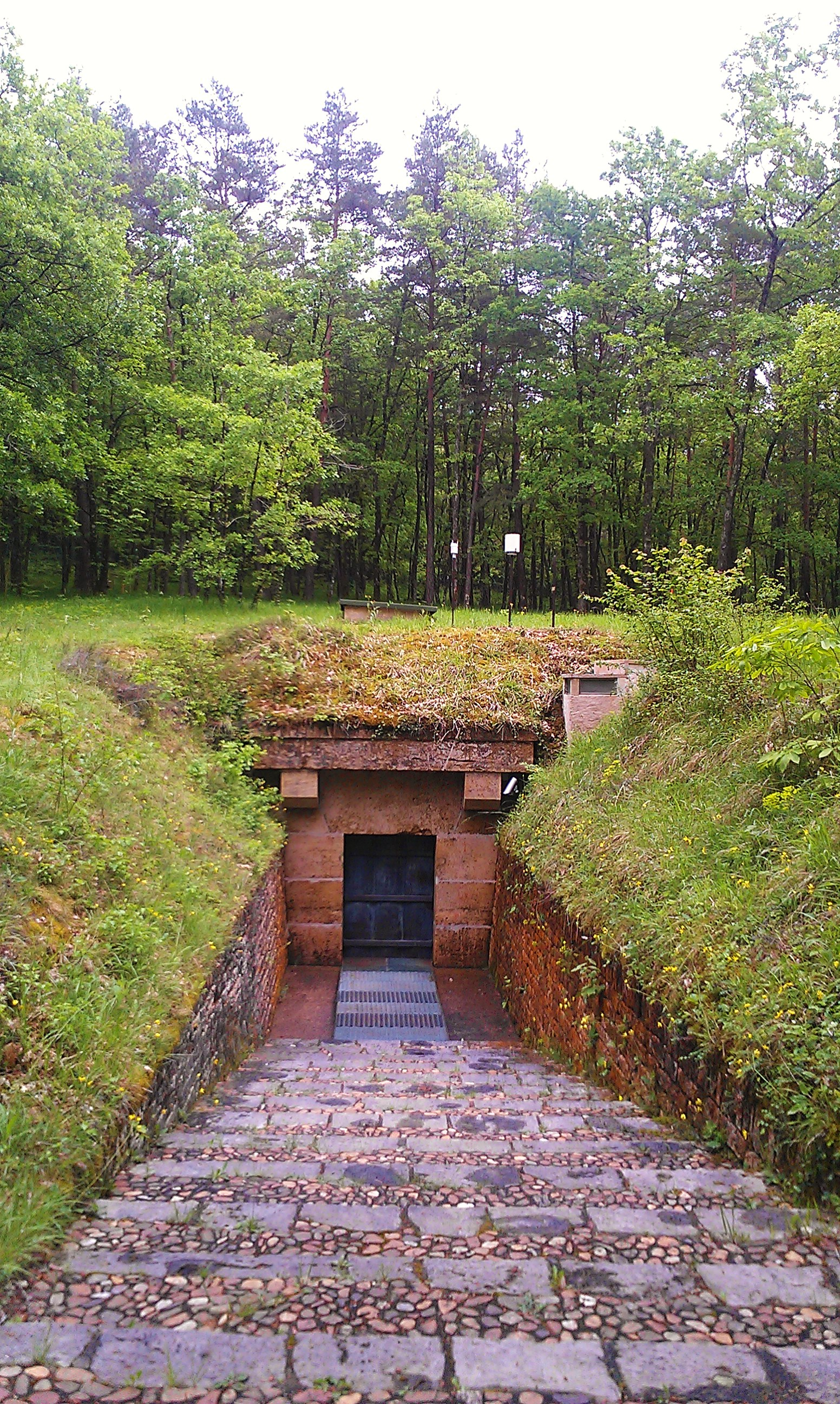 The entrance to the famed Lascaux cave, in Dordogne, South-Western France. Contained therein are Upper Palaeolithic paintings now off-limits to the public.